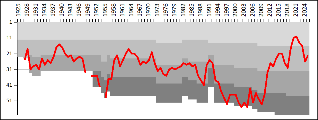 A chart showing the progress of GAIS through the Swedish football league system. Horizontal black lines represent league divisions.